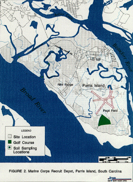 A map of Parris Island, South Carolina used in a report for the Center for Disease Control on the public health of the island.